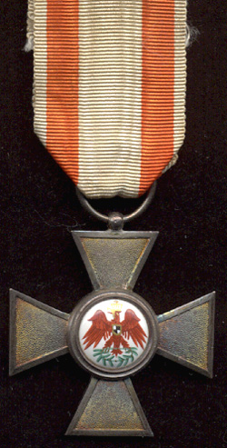 Scan by uploader from collection.